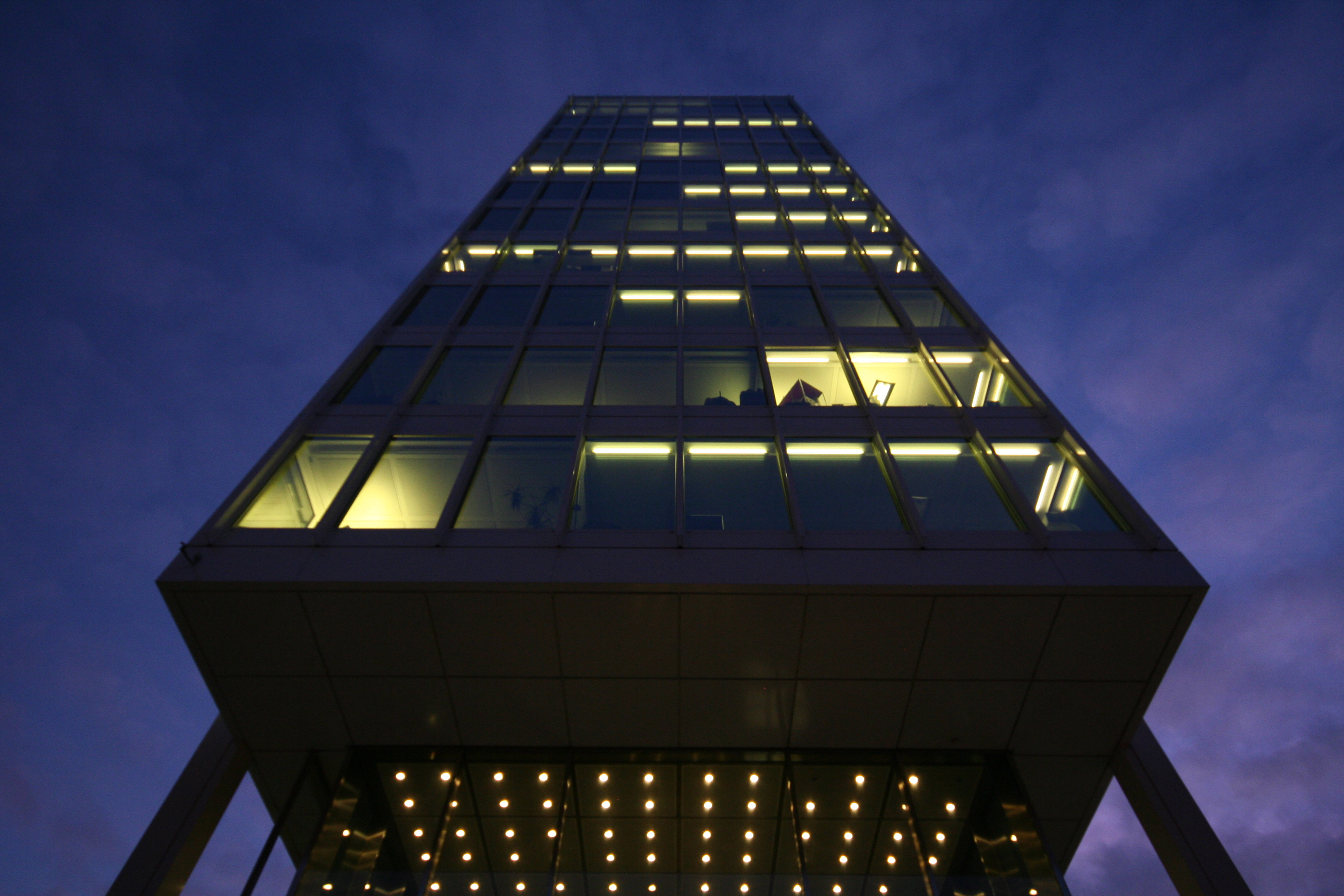 The Edipresse building (a media company) in Lausanne. Built in 1960-1964, architects: Pierre Bussat, Jean-Marc Lamunière. (source: City of Lausanne website). This picture and the following were taken mere hours after I splurged for my first wide-angle lens (a Sigma 10-20). I still have much to learn, obviously.